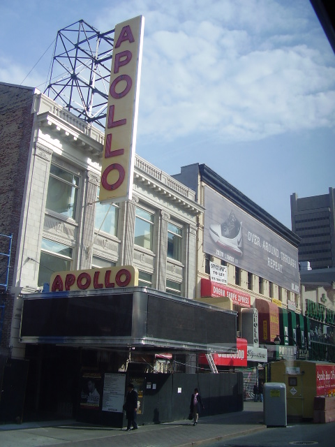 Apollo Theater, 125th Street, Harlem, New York City